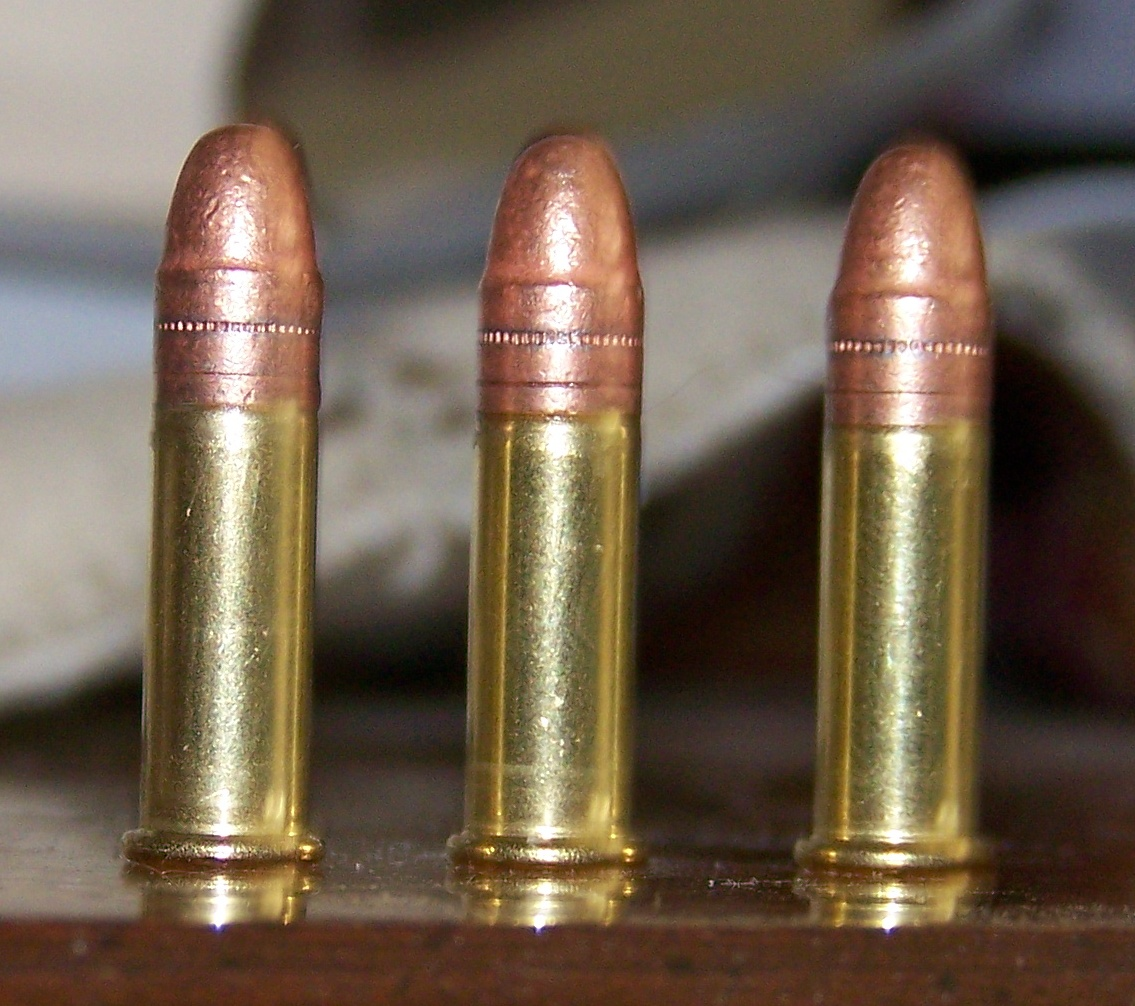 CCI Mini-Mag Rounds